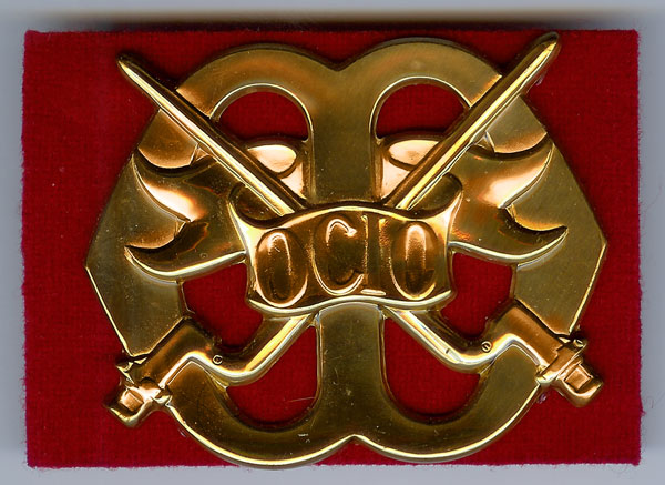 Initial Training Centre (Opleidings Centrum Initiël Opleiding)